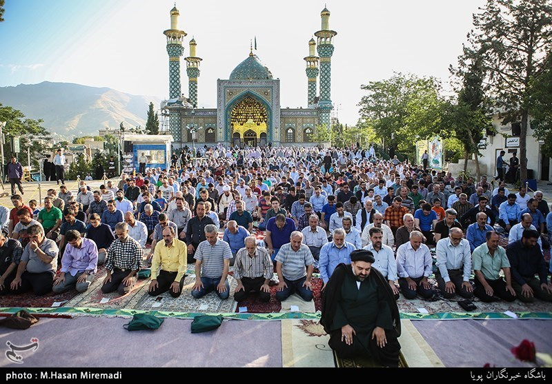 Iranians holding Eid al-Fitr prayer in Lavizan Imamzadeh shrine, Tehran, Iran